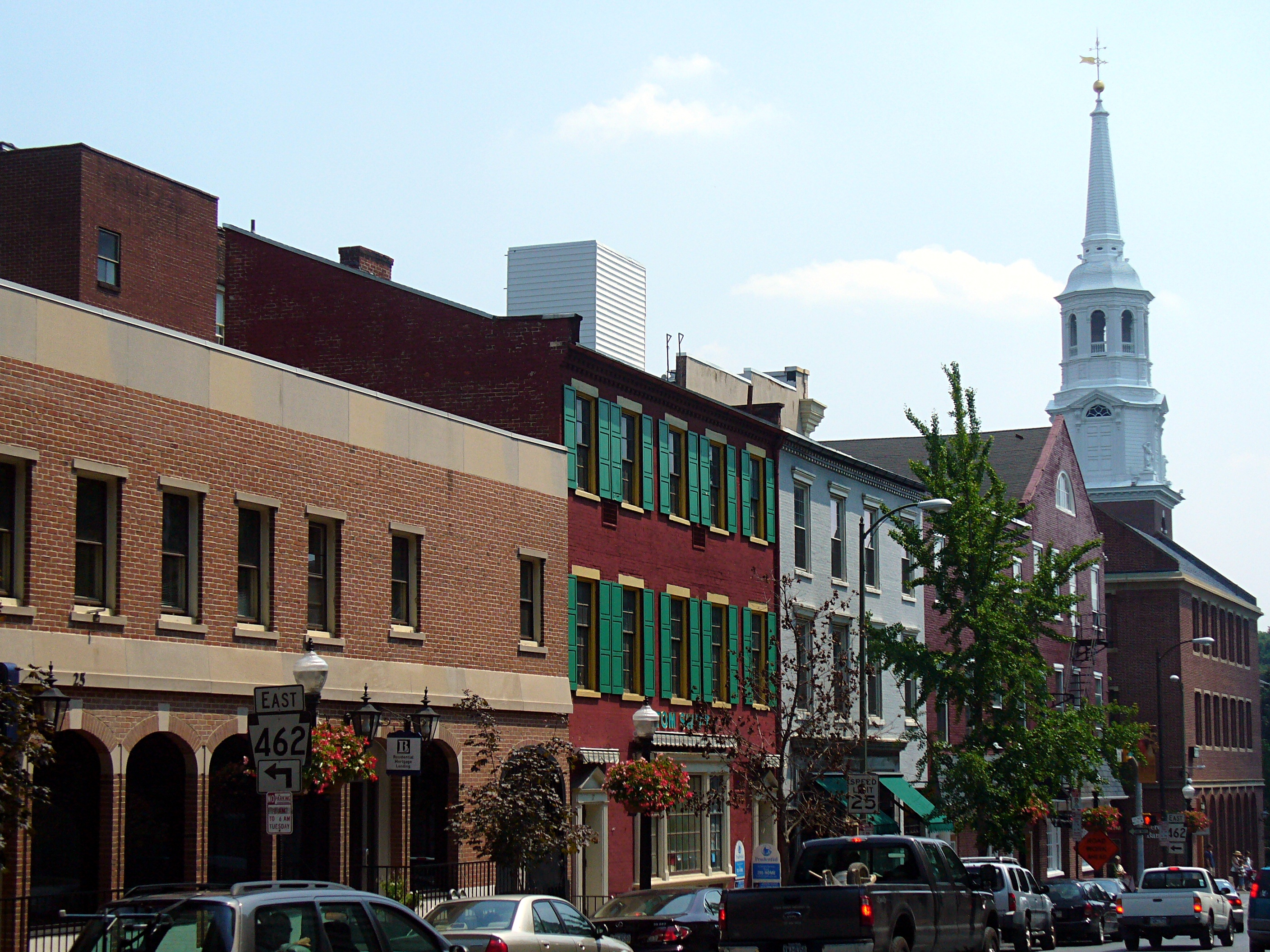 North Duke Street in Lancaster, Pennsylvania